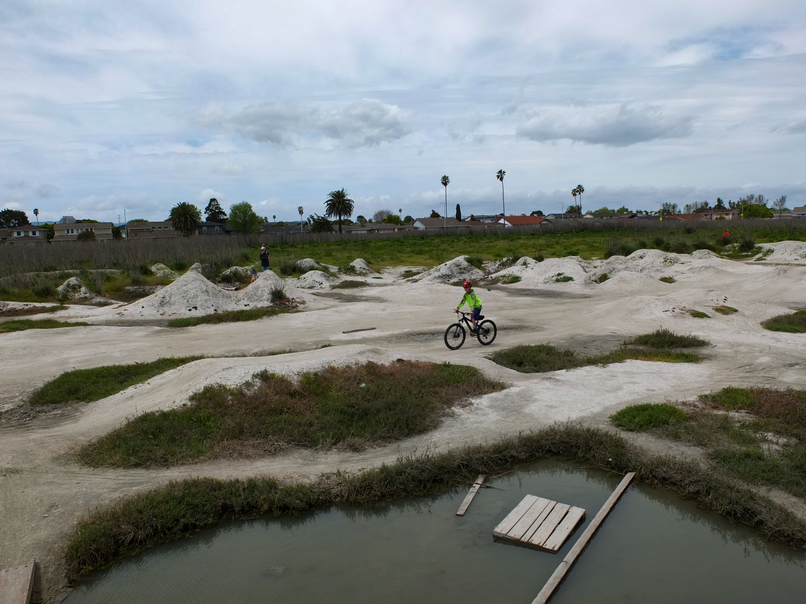 Shells Dirt Jumps at the Beach Park, Foster City, California